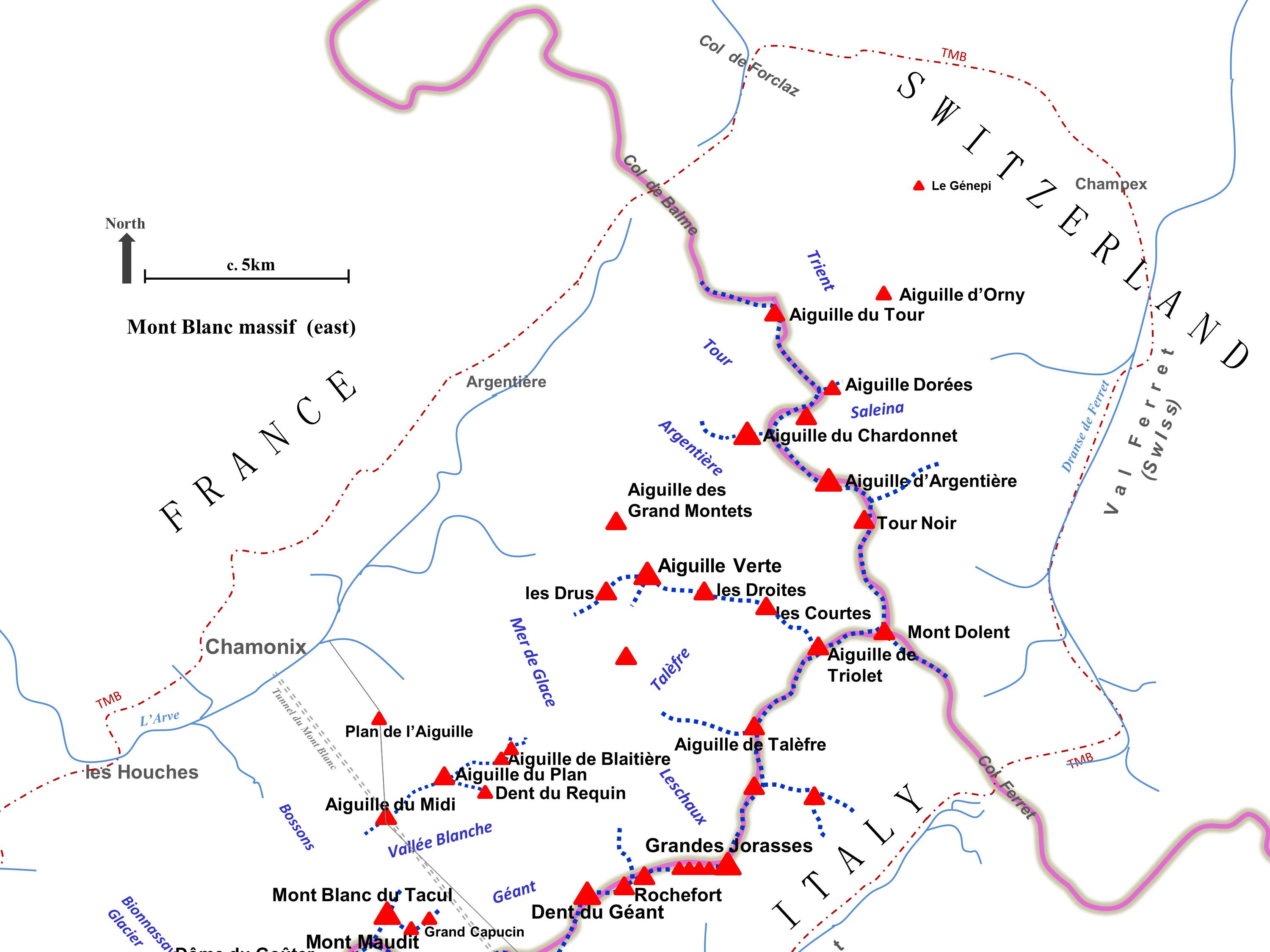 Main summits and ridges of the eastern half of the Mont Blanc massif. The general position and direction of flow of some major glaciers and main rivers, plus the approximate route of the Tour du Mont Blanc (TMB), the Tunnel du Mont Blanc and the aerial cableway between Chamonix and Courmayeur, are also indicated. Boundary between France, Italy and Switzerland is shown in grey.